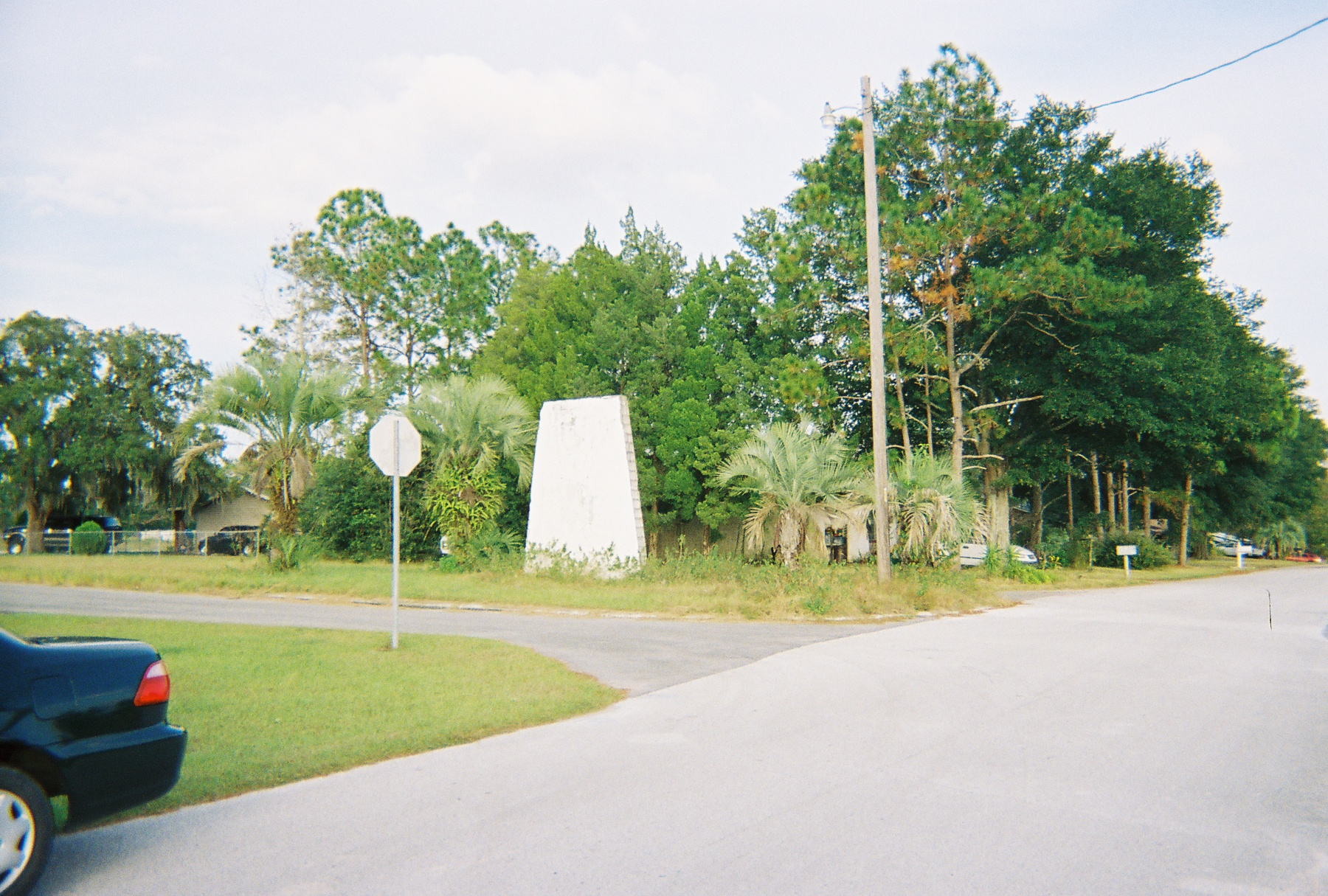 Faded former Hill 'n Dale, Florida gateway sign at Hill Road and Frampton Avenue(the frontage road off of US 98-FL 50). Taken from Frampton Avenue, and before the shot I took from the drainage ditch embankment between US 98-FL 50 and Frampton Avenue(Don't let the number on the title mislead you).